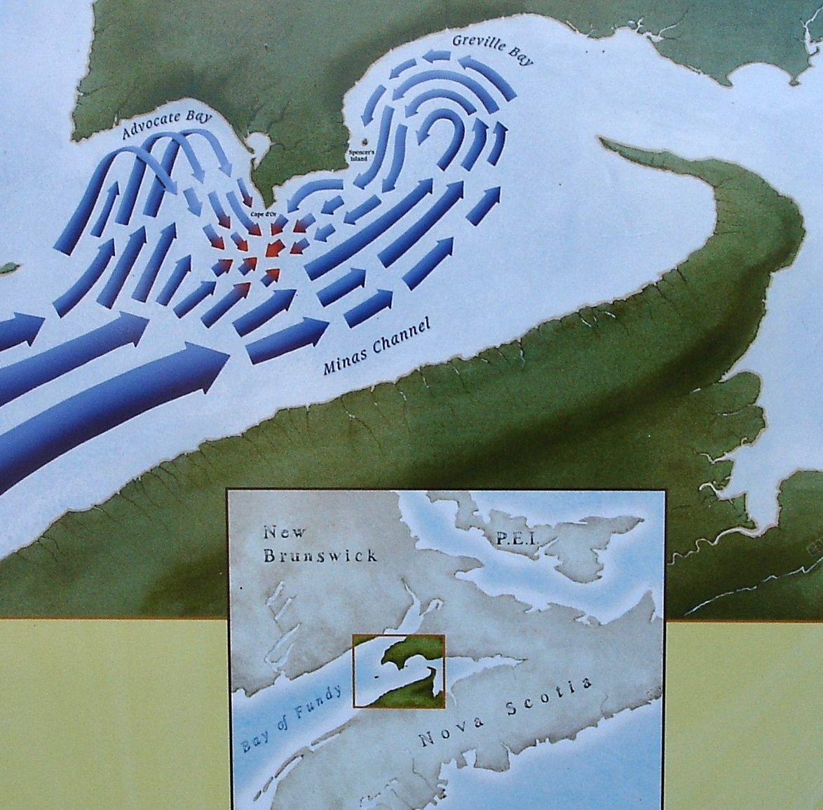 image of sign posted in govt parking lot at Cape d'Or, Nova Scotia, Canada, showing how tidal flow creates Dory rip currents off the coast of Cape d'Or.